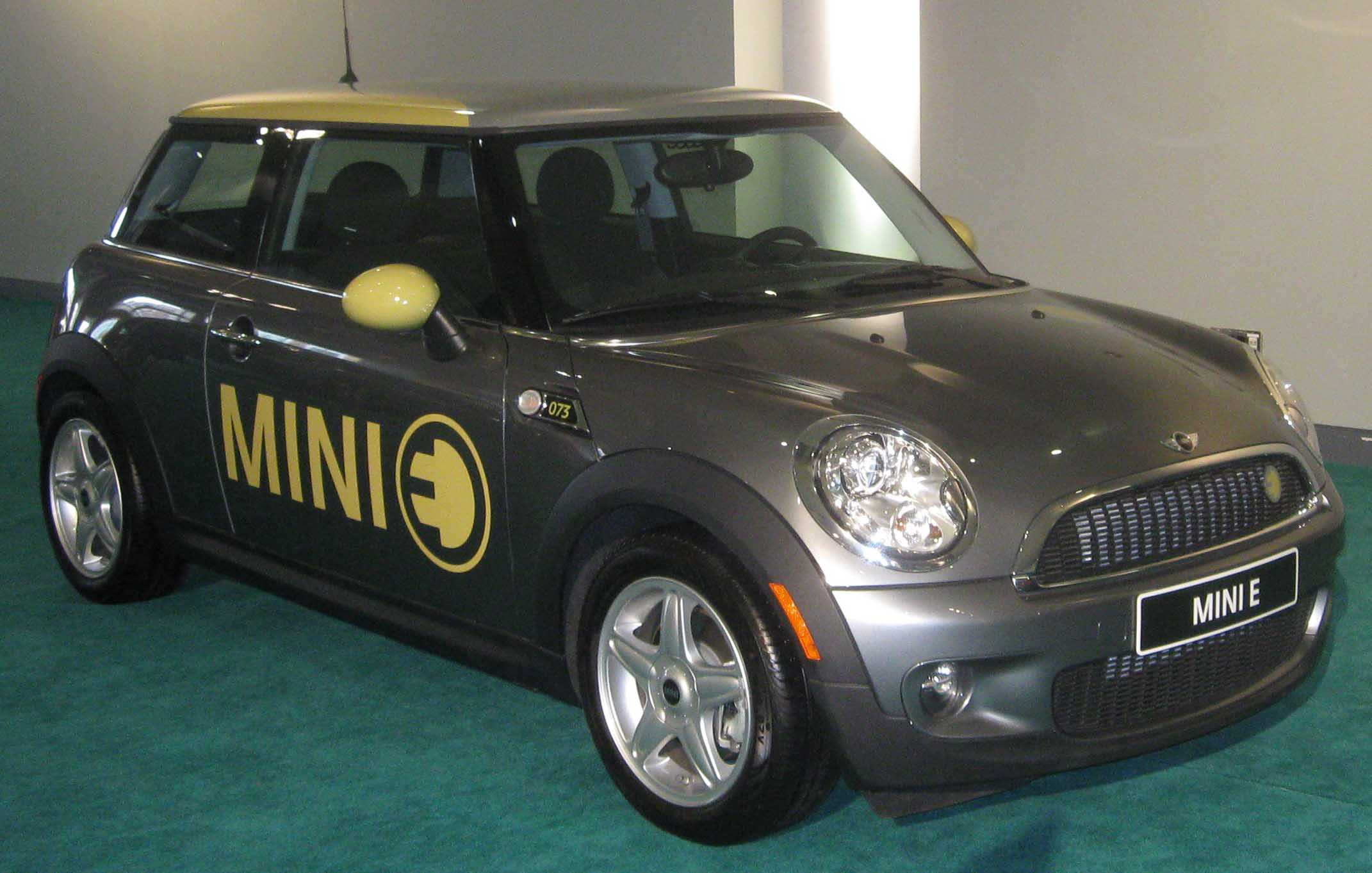 Mini E photographed at the 2009 Washington DC Auto Show.